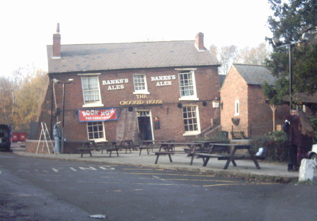 The Crooked House, Dudley.